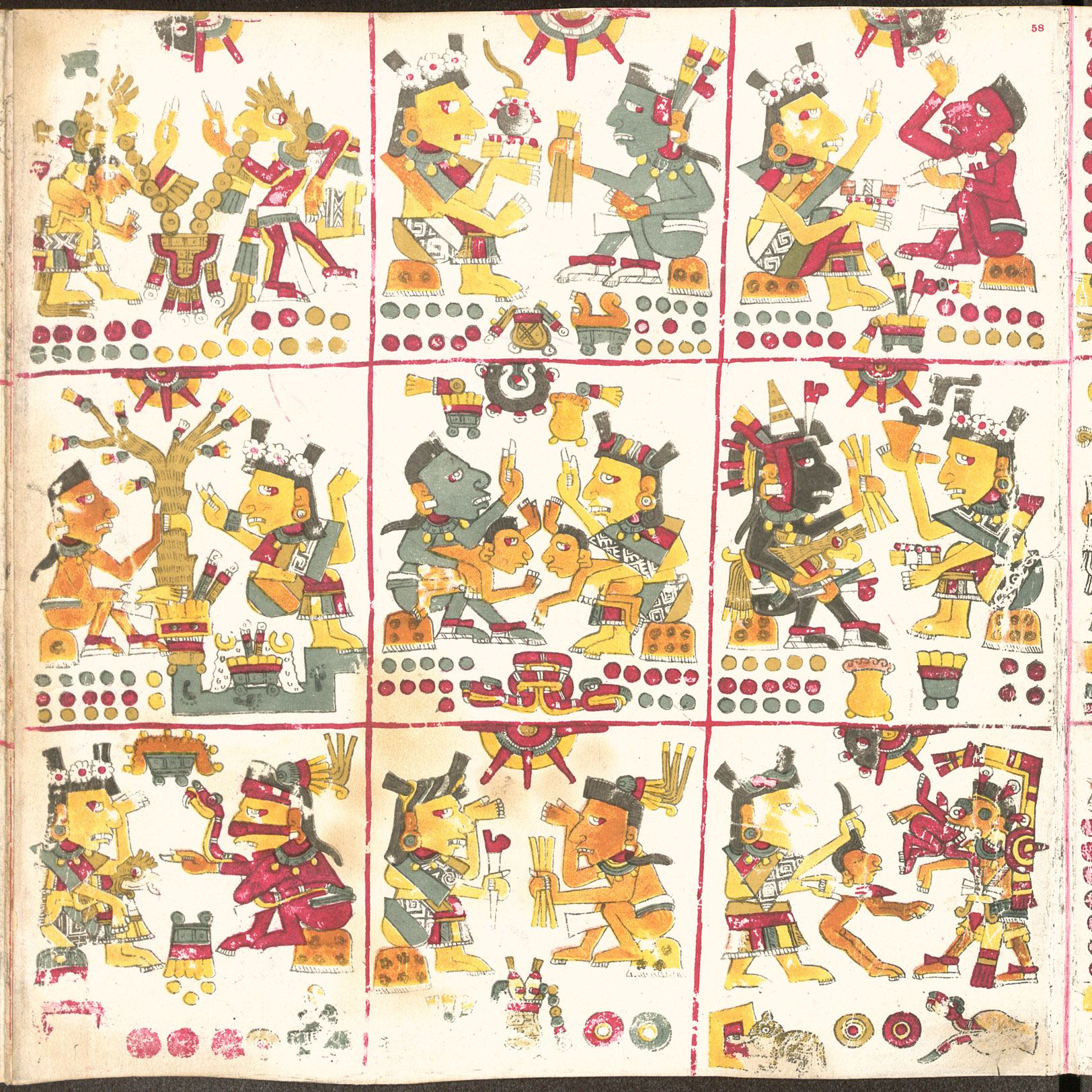 Page 58 of the Codex Borgia.